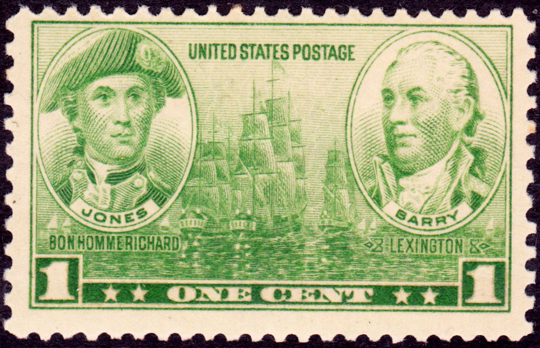 Jones_Barry_Navy_Issue_1937-1c.jpg